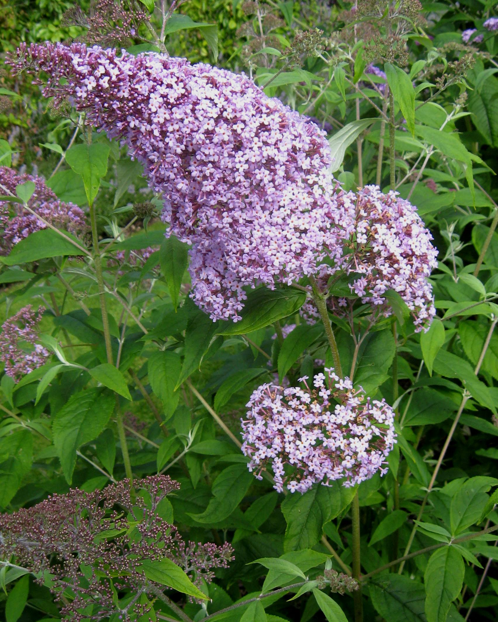 Photo of Buddleja hybrid cultivar 'Gulliver' taken at Longstock Park, UK